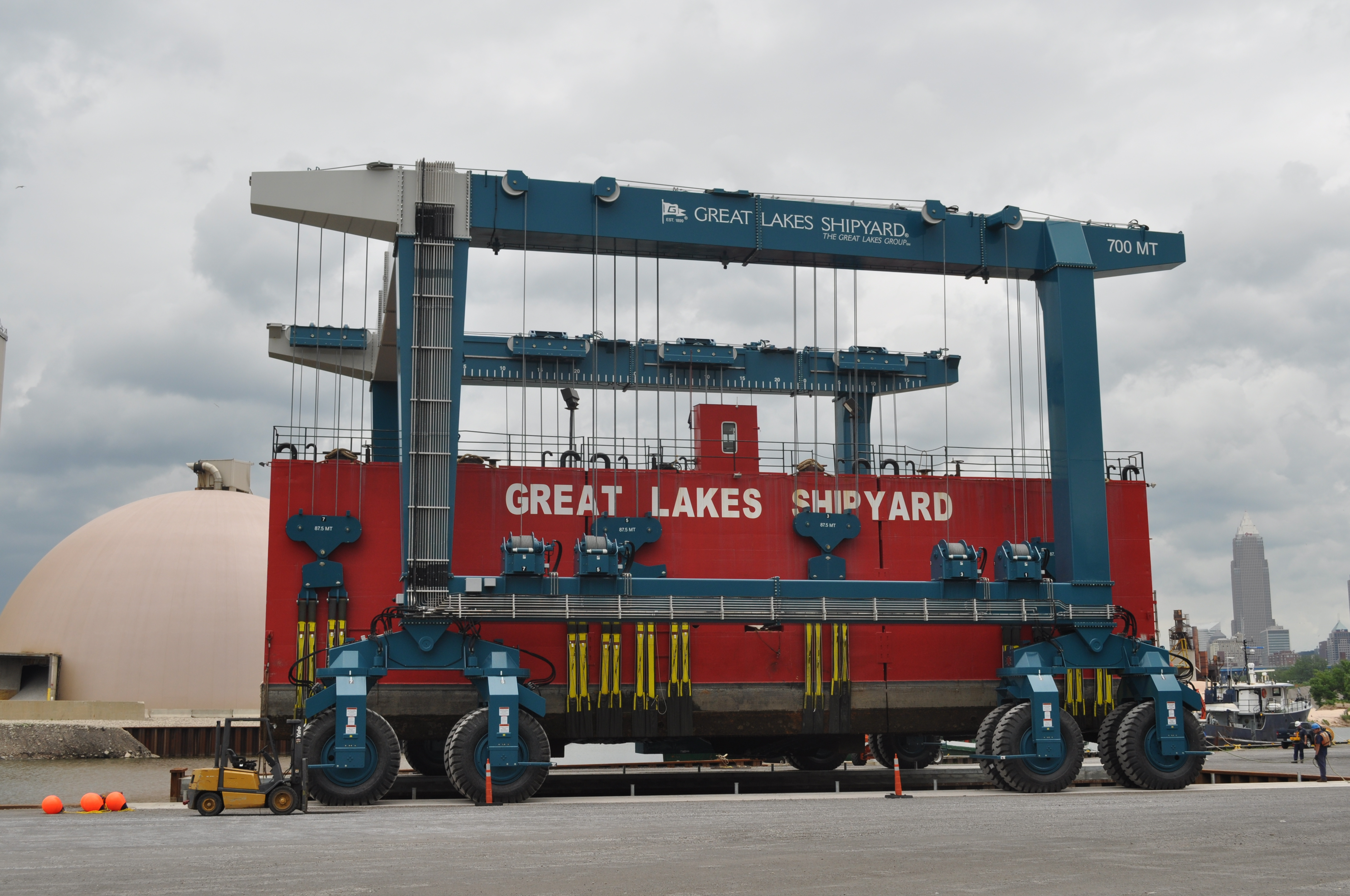 Great Lakes Shipyard's Marine Travelift, christened July 29, 2011.